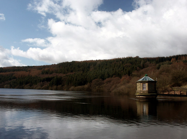 The sluice tower at Fernilee This is the sluice tower on Fernilee Reservoir in the Goyt Valley.